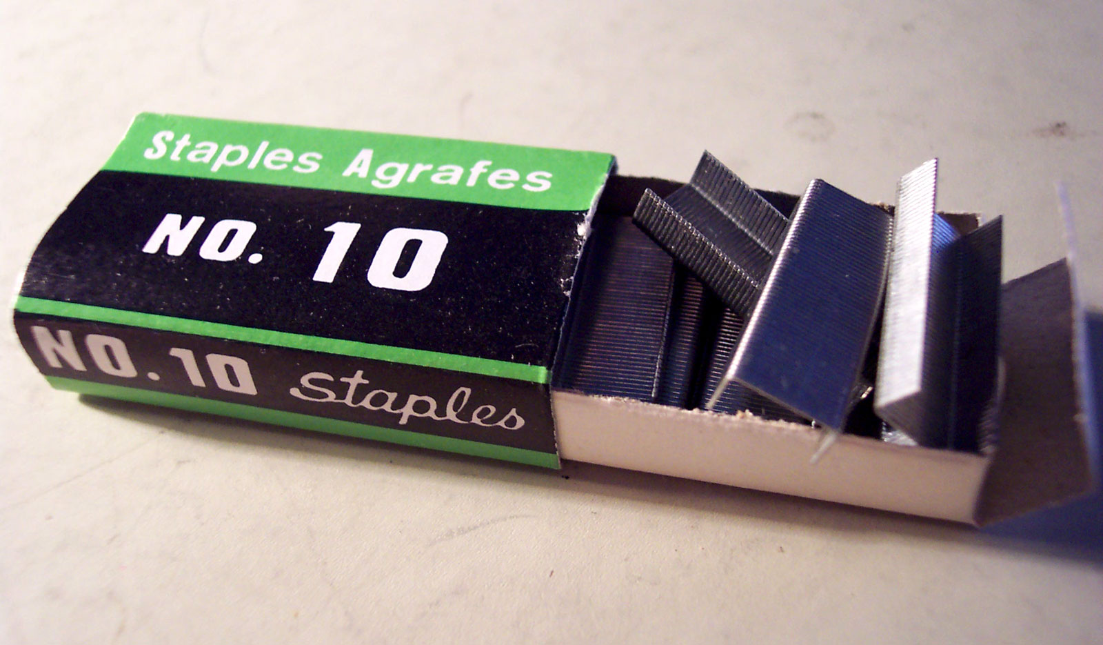 Staple (fastener) Taken by Enoch Lau on 22 June 2004. As a courtesy, please let me know if you alter this image or this image description page. Original filename was 100_2900.JPG.